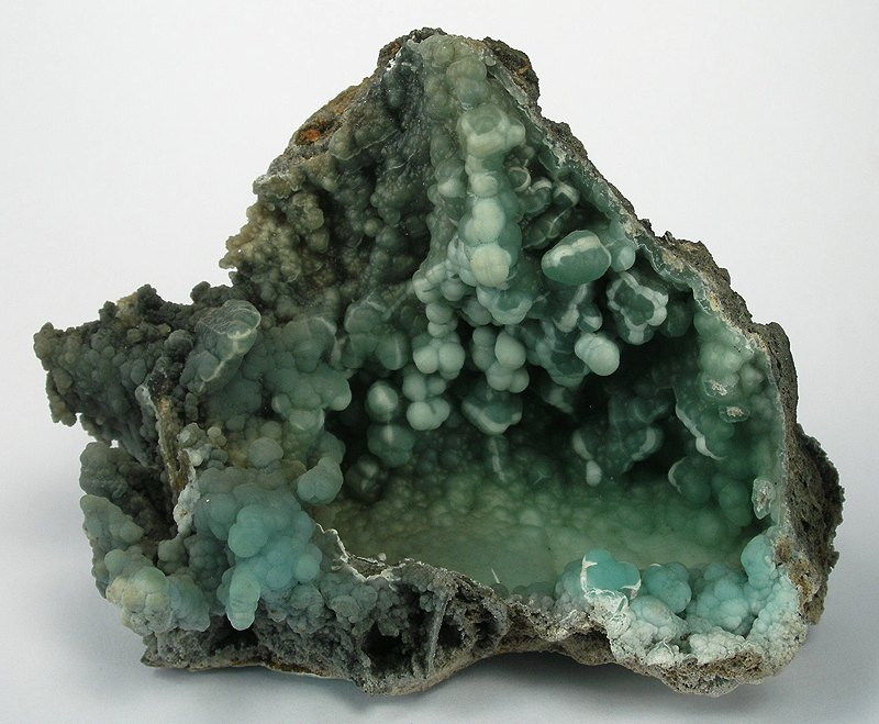 Doyleite, Gibbsite Locality: Xianghualing Mine (Hsianghualing Mine), Xianghualing Sn-polymetallic ore field, Linwu County, Chenzhou Prefecture, Hunan Province, China (Locality at ) Size: small cabinet, 9.6 x 7.2 x 5.8 cm Gibbsite with Doyleite Nestled in a vug are translucent, pastel blue-green botryoidal aggregates of gibbsite, to.8 cm in length, with interesting white overgrowths of the rare species doyleite. An aesthetic and complete pocket as found.